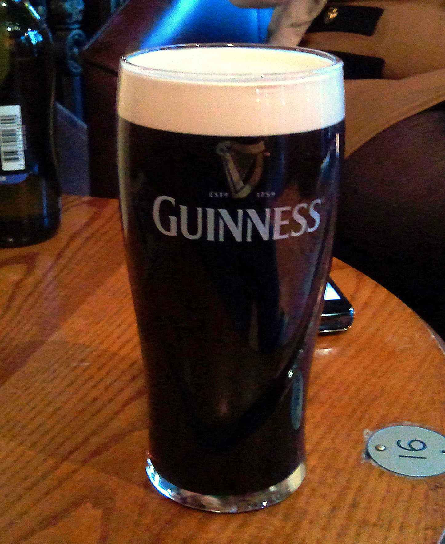 An example of the newly-designed Guinness glass, put into use in April 2010. It was designed to gradually replace the older tulip-shaped glasses.